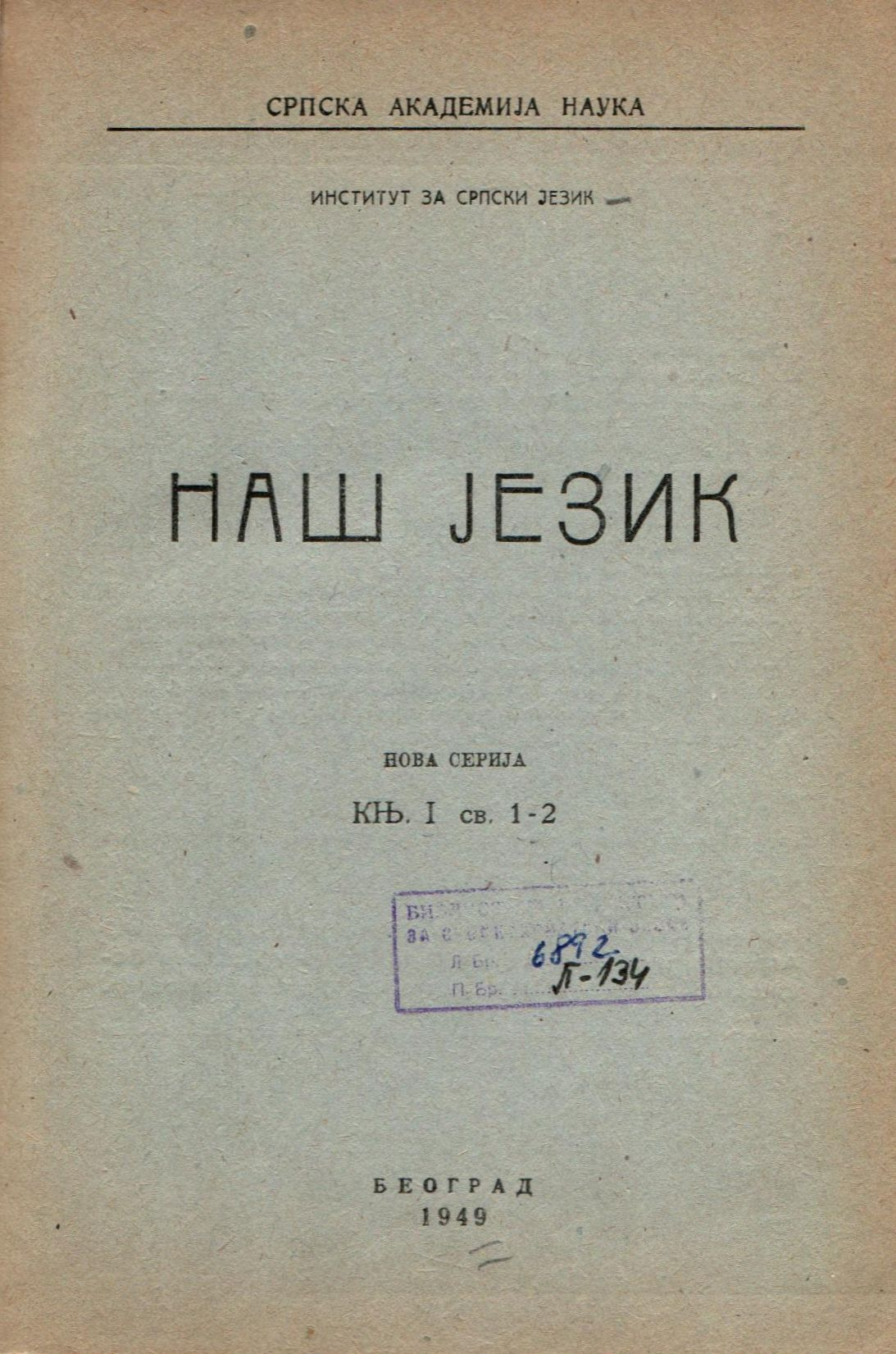 Cover of Serbian scientific journal Naš jezik, 1949.